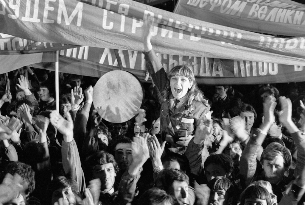 “All-union Komsomol impact construction team”. Members of the All-union Komsomol impact construction team named after the 19th VLKSM (Young Communists Organization) congress leaving to implement Soviet top-priority projects.